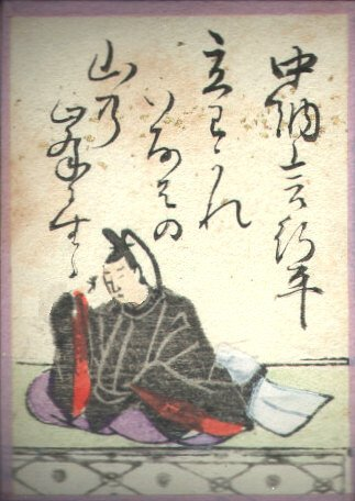 A portrait of Chū-nagon Yukihira; illustration from an uta-garuta playing card for Hyakunin Isshu, created in the Edo period.